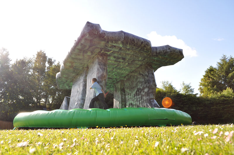 An inflatable reproduction of the famous Irish megalithic tomb.